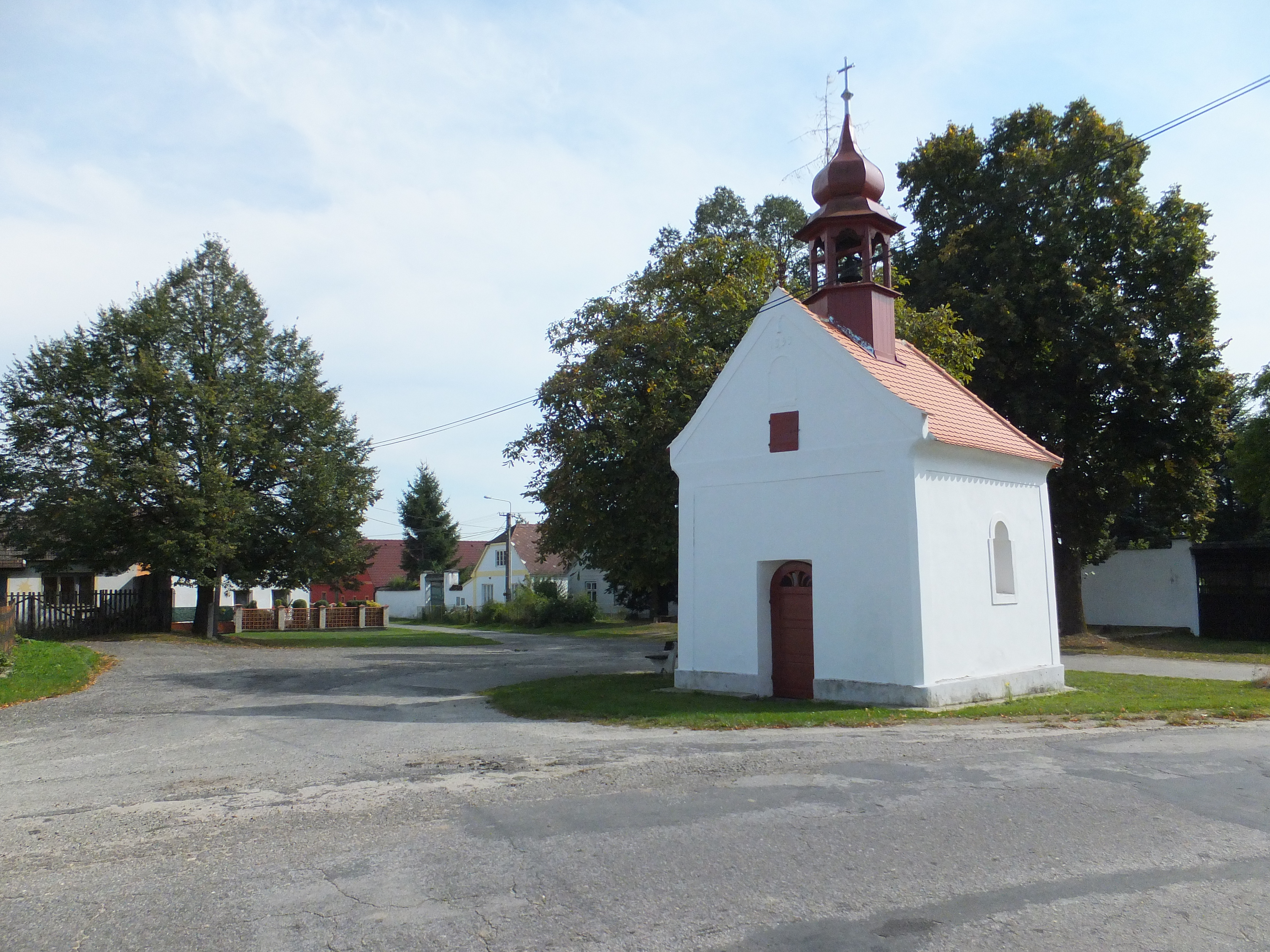 The chapel in Libořezy